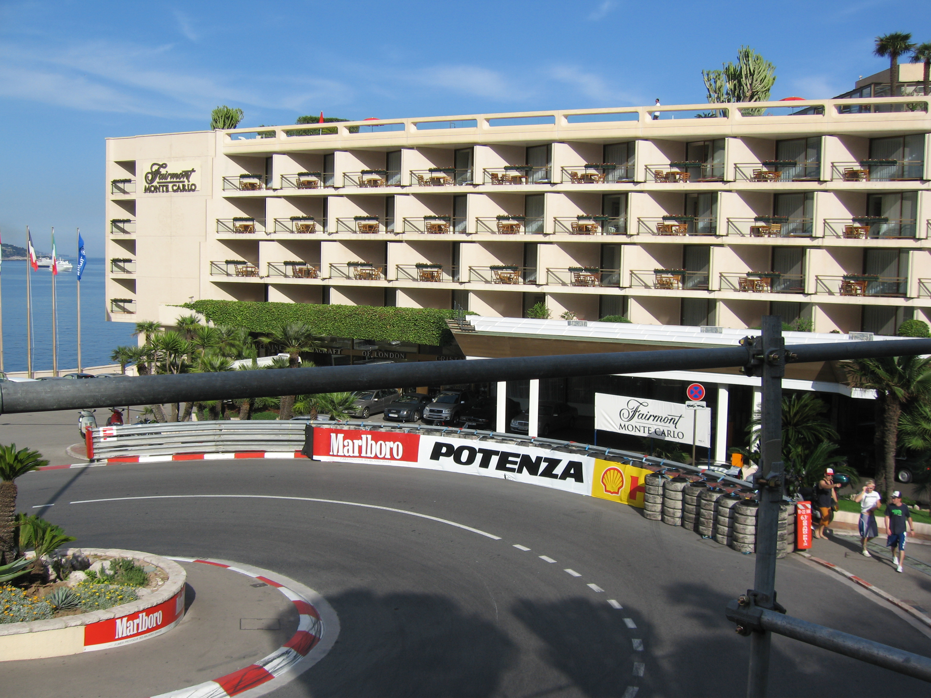 The Grand Hotel Hairpin at Monte-Carlo